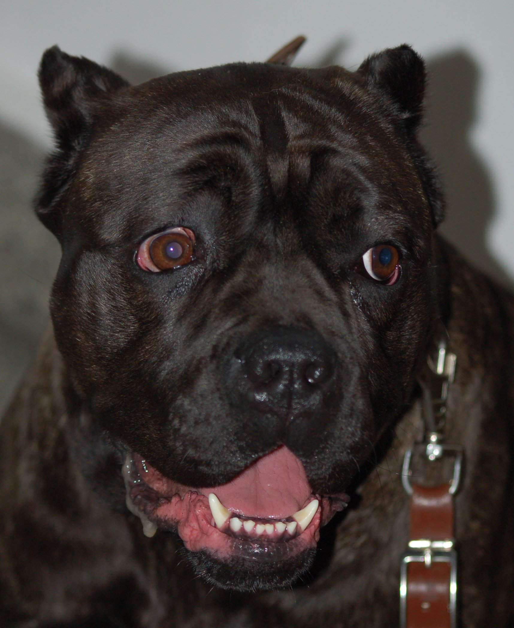 Cane_Corso_Italiano during dogs show in Katowice, Poland